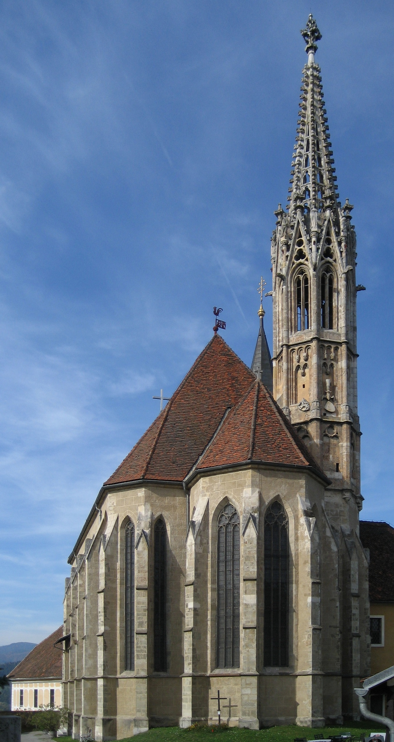 Church Maria Straßengel (Maria Strassengel), near Graz, Austria